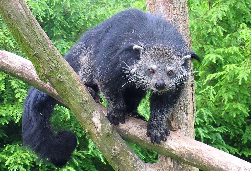 Binturong (Arctictis binturong) at Overloon, NL